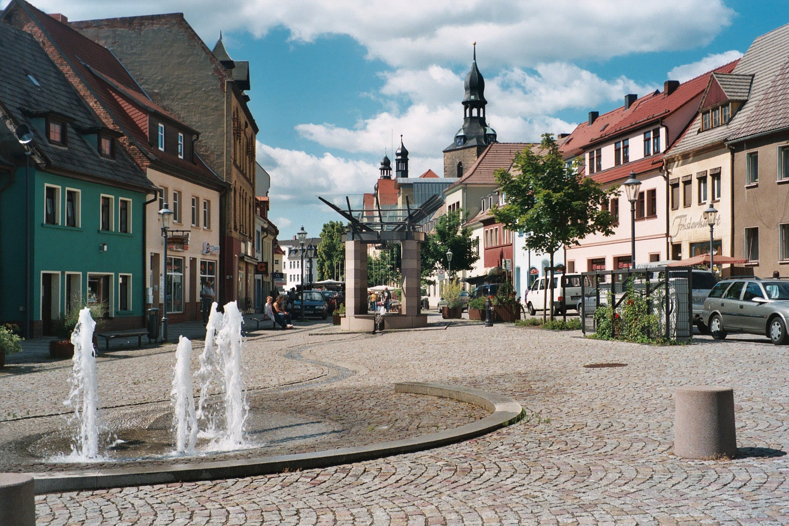 Hettstedt, the town square